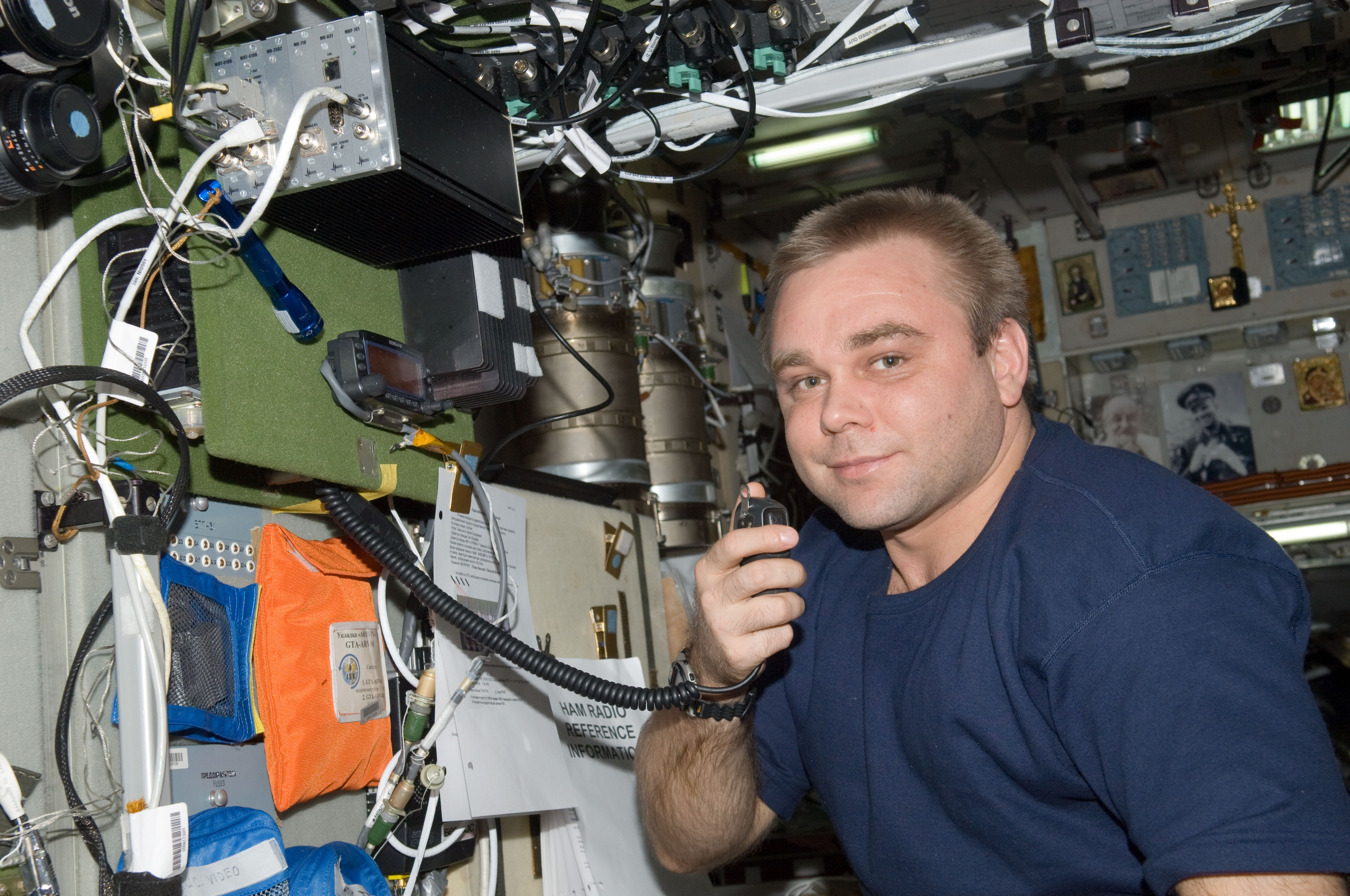 Russian cosmonaut Maxim Suraev, Expedition 22 flight engineer, conducts a ham radio session in the Zvezda Service Module of the International Space Station with students, alumni and faculty of Kursk State Technical University.